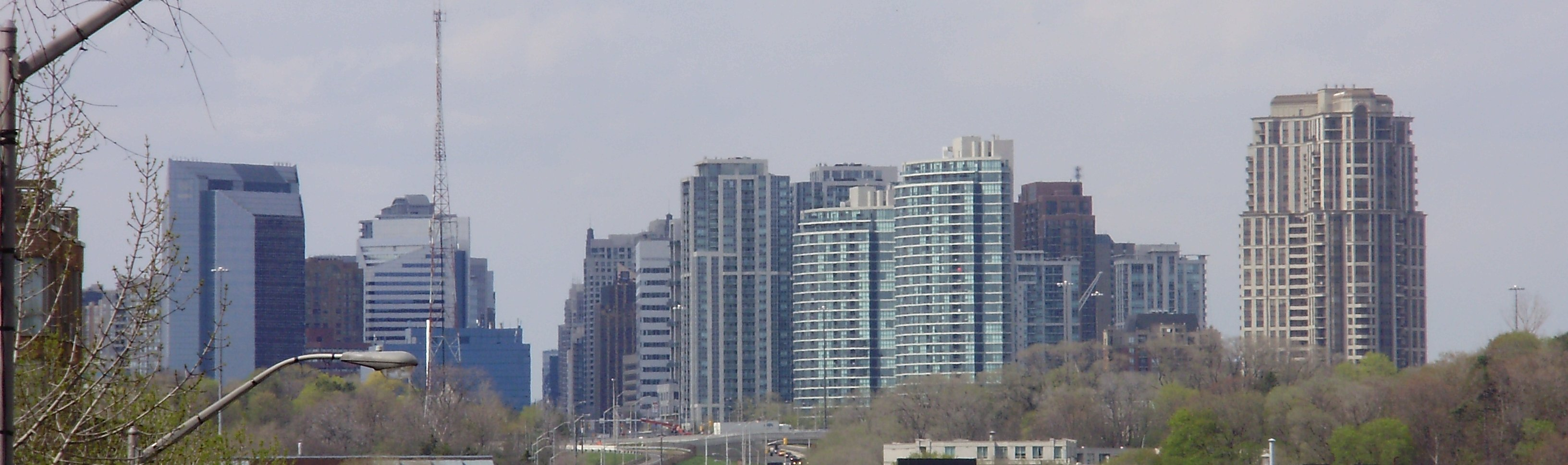 The skyline of North York, Ontario, photographed from Yonge Street south of York Mills Avenue.